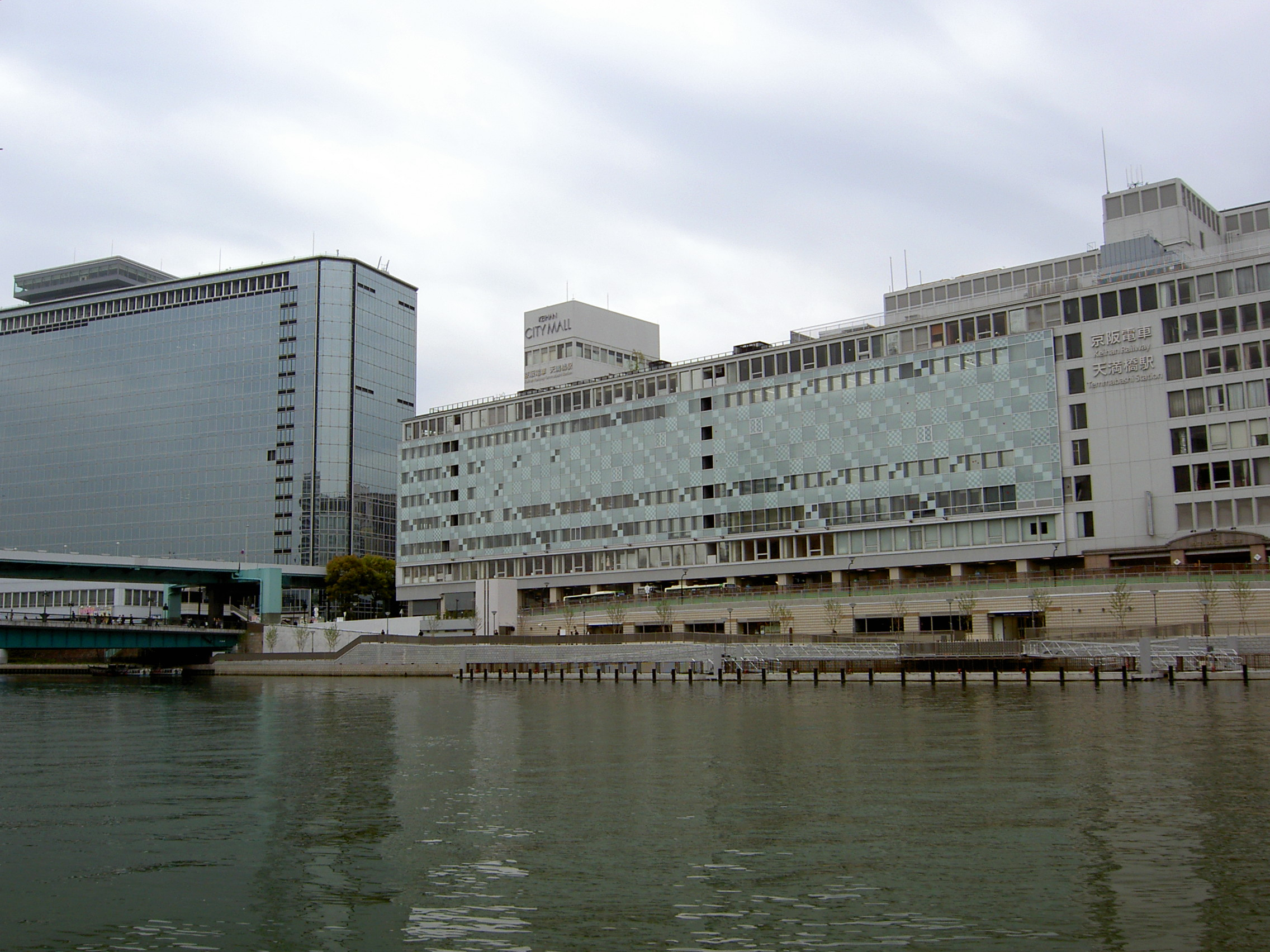 Temmabashi station building and Hachikenyahama port, 1-1, Temmabashi-Kyomachi, Chuo-ku, Osaka-shi, Osaka Japan.